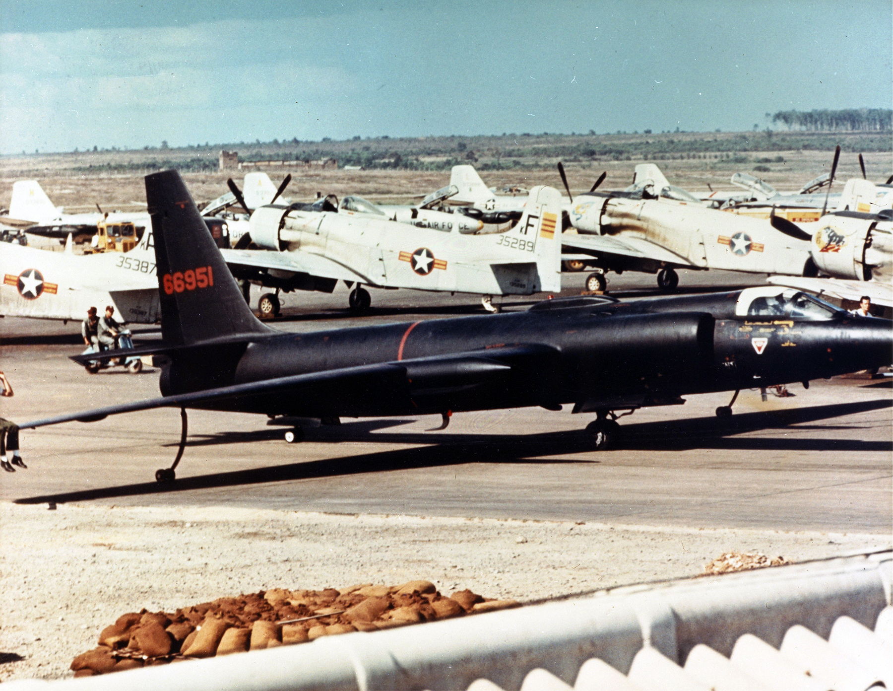 A U.S. Air Force Lockheed U-2D (s/n 56-6951) from the 4028th Strategic Reconnaissance Squadron at Bien Hoa Air Base, Vietnam, in early 1965. For security reasons, U-2s were rarely seen outside of their hangars. Note the Vietnamese Douglas A-1H Skyraiders and USAF Martin B-57B Canberras in the background.The U-2D 56-6951 crashed on 19 October 1966 on the runway at Davis Monthan AFB, Arizona (USA), during a practice approach and landing. The pilot survived without injury.